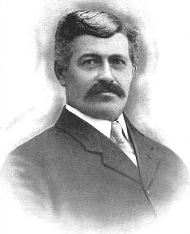 Abram W. Foote